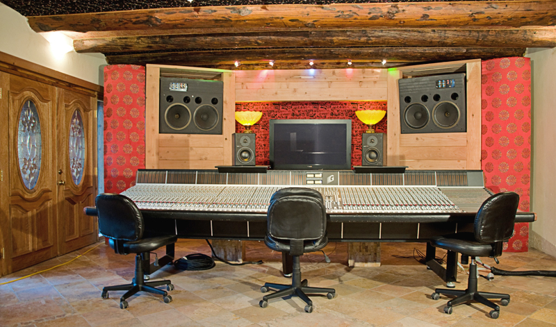 The Mix Room at Sonic Ranch in West Texas. console: SSL G-G+ 64ch (24 E Black series Eqs). G Series Computer, G+ Software and Total Recall. main monitor: Tannoy 215 DMT II near field monitor: Dynaudio Acoustics BM recorder: HD 3 ProTools screen: Hi-Definition 50” Pioneer flat screen